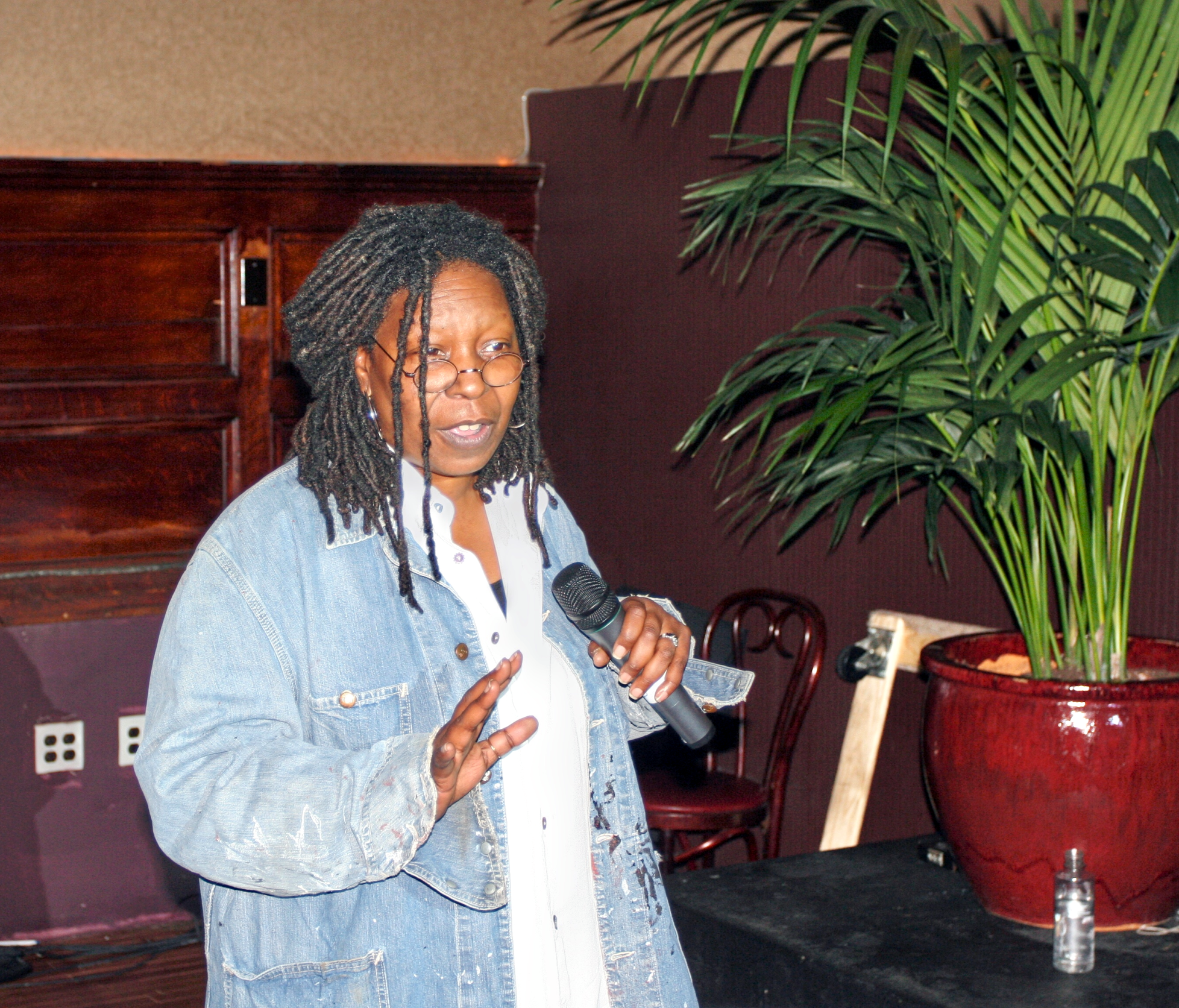 Whoopi Goldberg performs stand-up comedy at a charity benefit for Rainforest Action Network, at Chris Noth's club, The Plumm, in New York City.